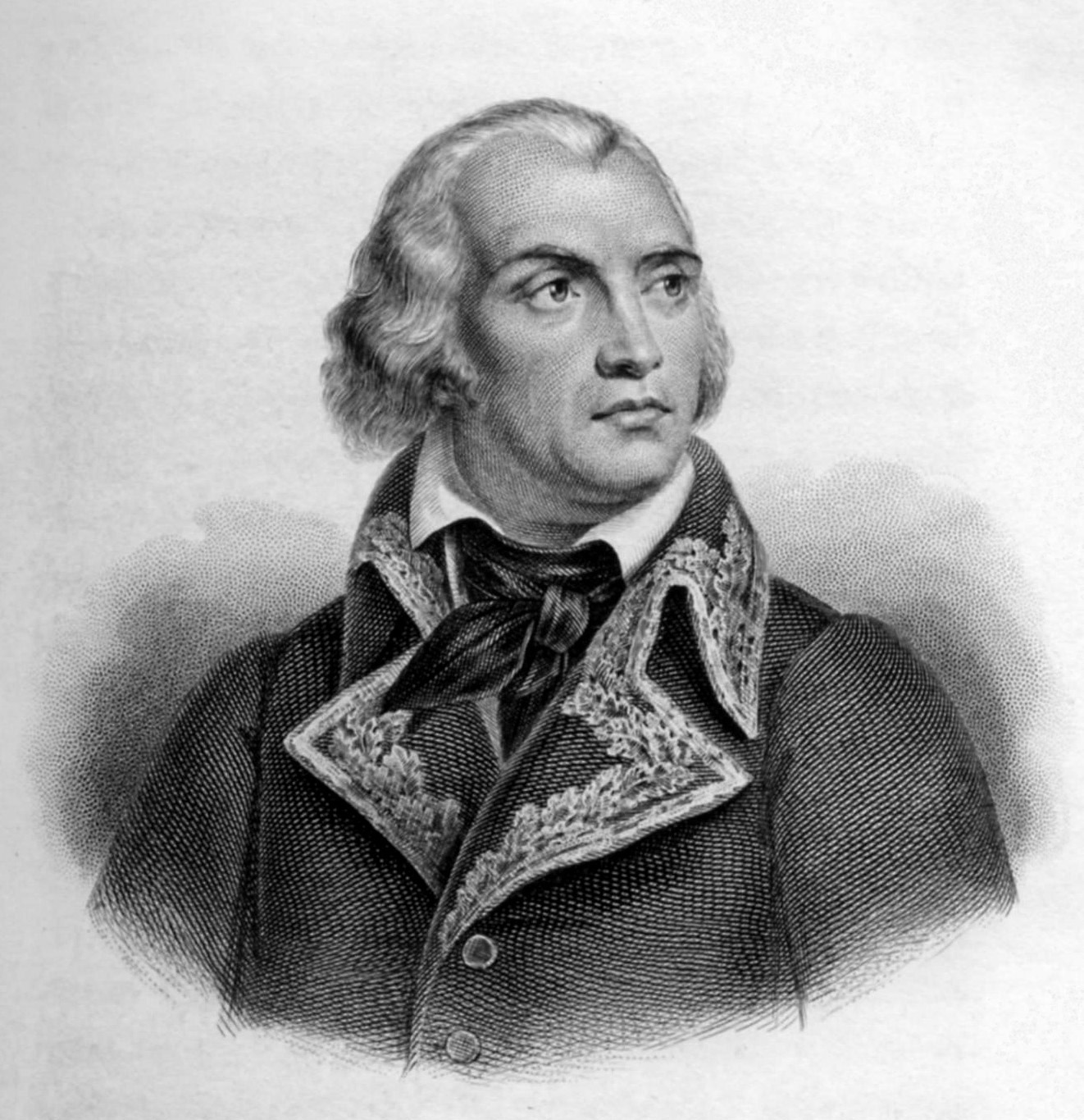 Jean-Charles Pichegru (16 February 1761, Arbois, Franche-Comté-5 April 1804, Paris) was a French General of the Revolutionary Wars, noted for his leading role in the conquest of the Austrian Netherlands and Holland, and later for his work against the Revolution and for his attempted coup against Napoleon Bonaparte.